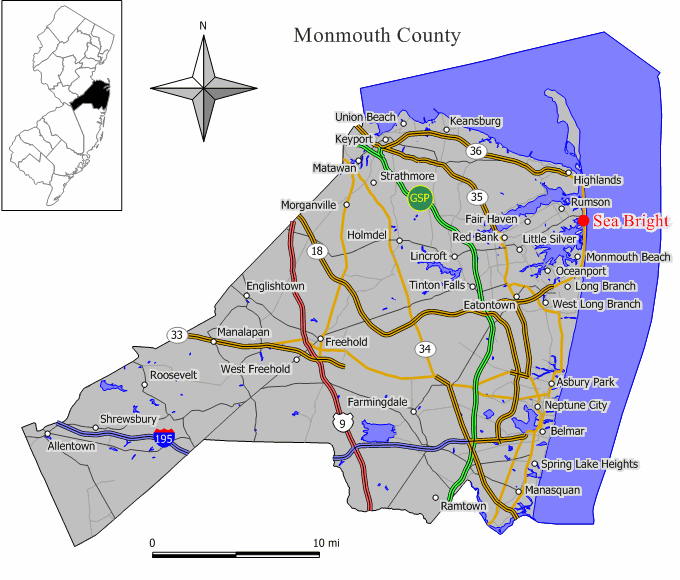 Source: Jim Irwin